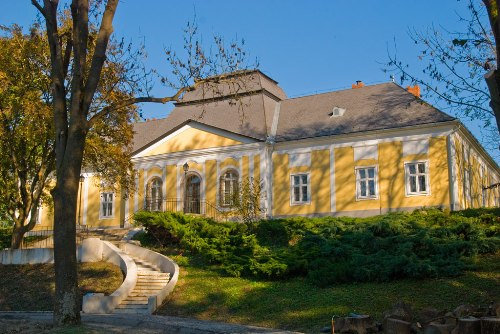 Big castle